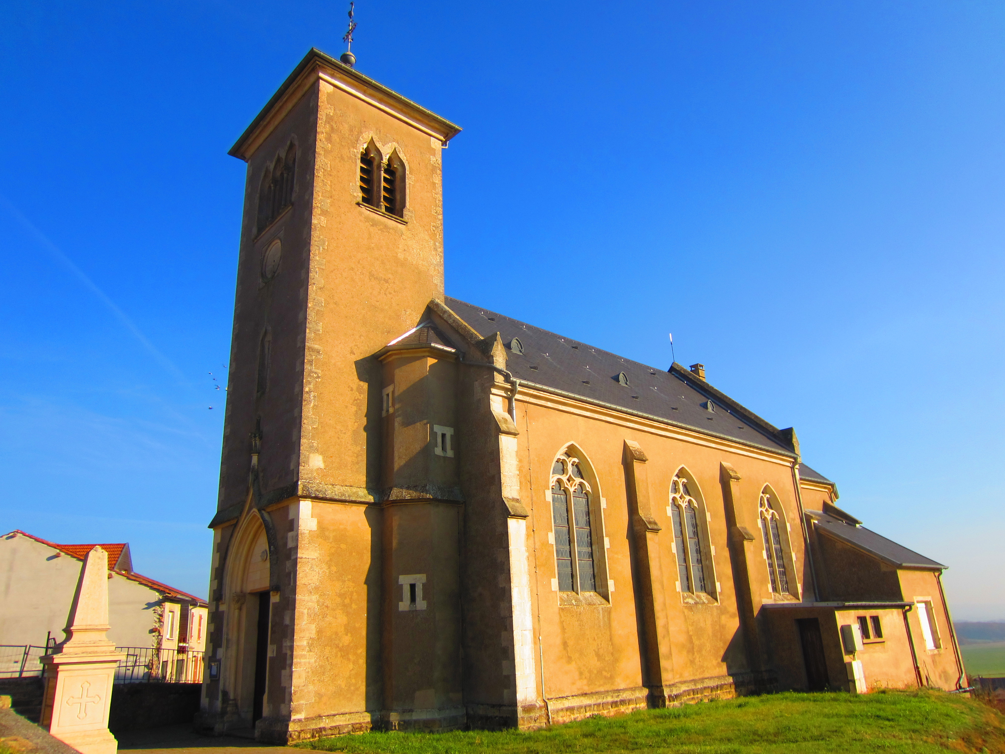 Description eglise Breistroff Grande Date21 November 2011Sourcemon appareil photoAuthorAimelaimePermission(Reusing this file) eglise Breistroff Grande